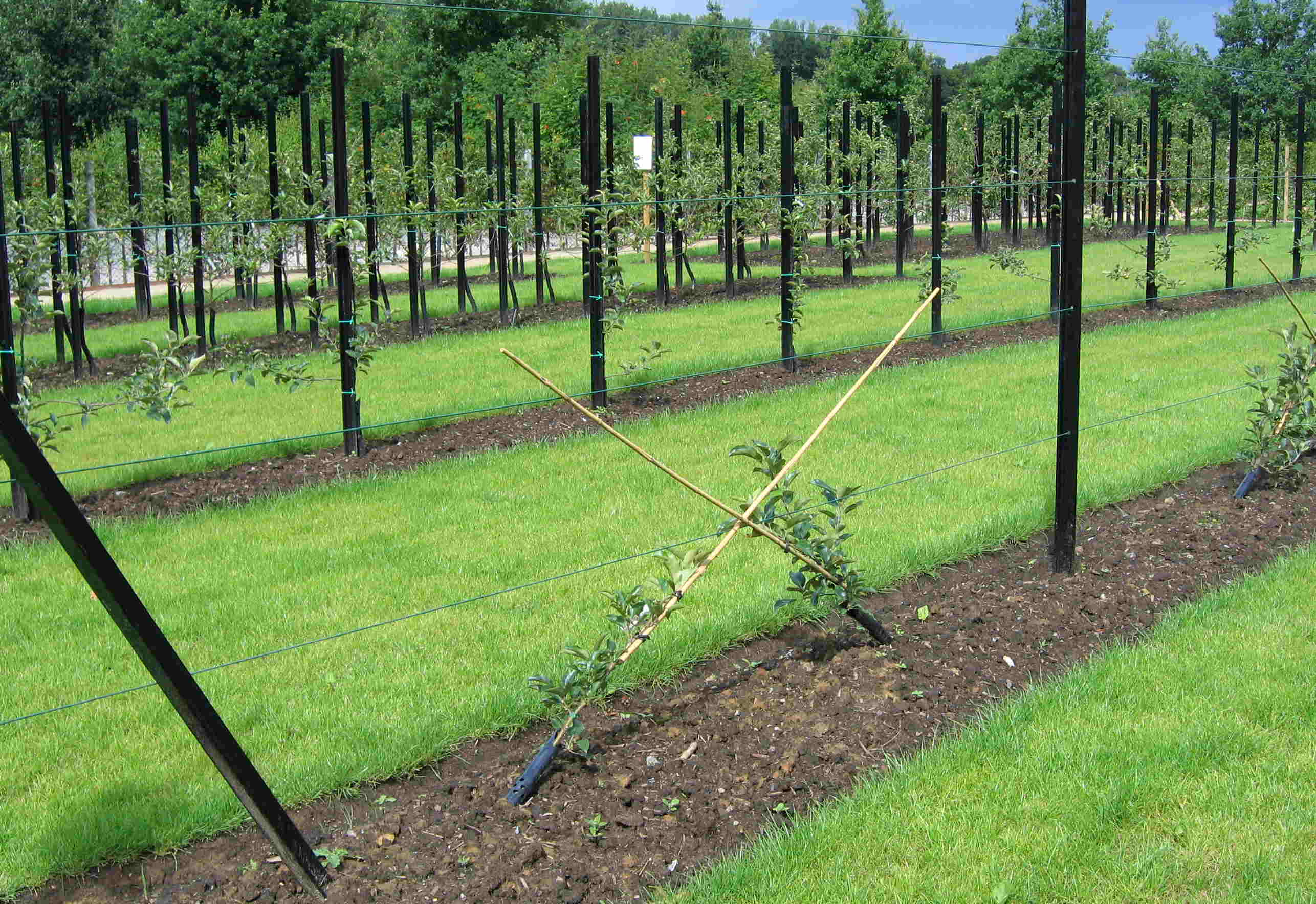 A picture of a test site/public domain of different fruit trees. The test site is located next to the castle of Gaasbeek, Belgium (see this Wikipedia-entry). The set-up is made from the examples given in the book "Snoei der Fruitbomen by Frederik Burvenich 1879" and is accompanied with plates on which the concrete set-up is explained in detail (usually the poles are however no longer than 2m and distance within the rows 3m and between: 2m). This particular form is a Bouché-Thomas